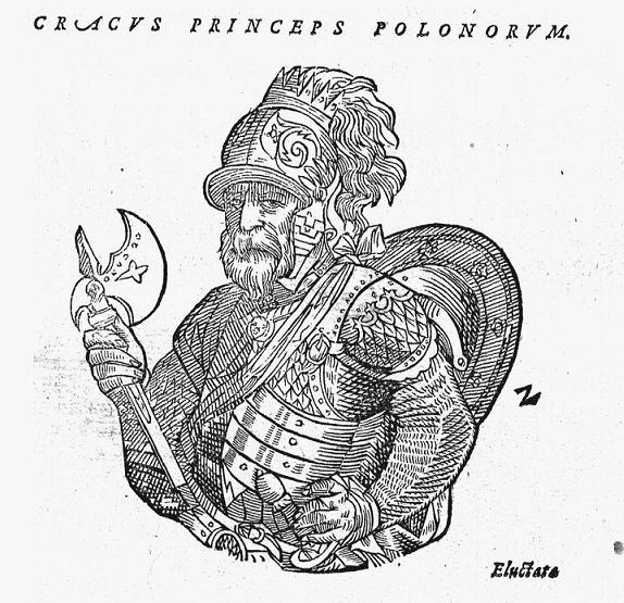 A picture of Krak, legendary king of Poland.